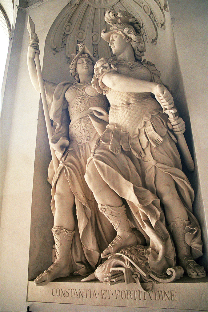 Allegorical statues of Constantia and Fortitudine at the inner Burgtor of the Hofburg in Vienna